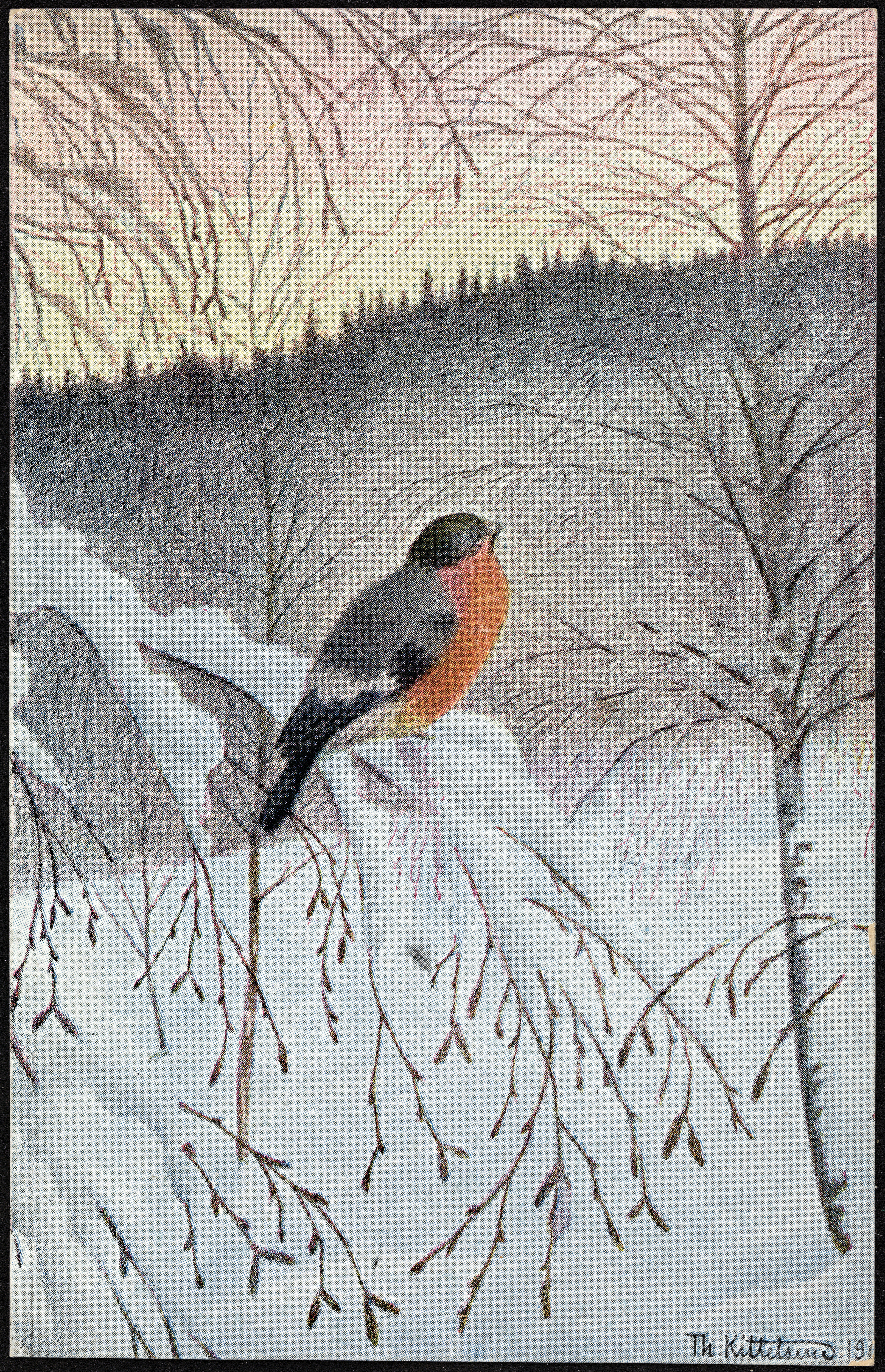 Beskrivelse / Description: Postkort / postcard. Serie 2067. Dato / Date: malt 1906, postkort utgitt ca. 1920 Kunstner / Artist: Theodor Kittelsen (1857-1914) Utgiver / Publisher: Mittet & Co. Digital kopi av original / Digital copy of original: postkort farge, trykt Eier / Owner Institution: Nasjonalbiblioteket / National Library of Norway Lenke / Link: Bildesignatur / Image Number: blds_06495